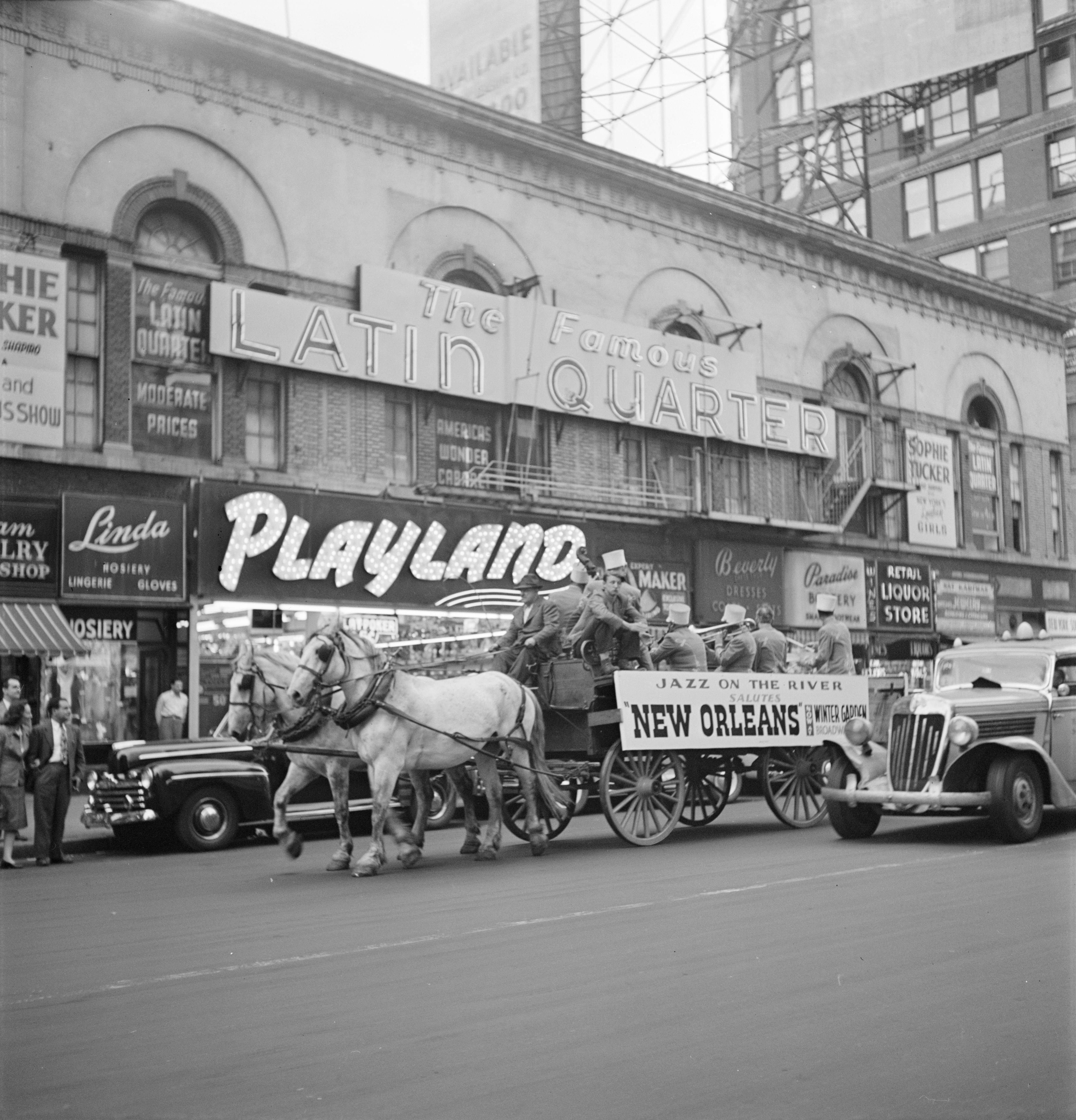 Kaiser Marshall, Art Hodes, Sandy Williams, Cecil (Xavier) Scott, Henry (Clay) Goodwin, Times Square, ca. July 1947. Photograph by William P. Gottlieb